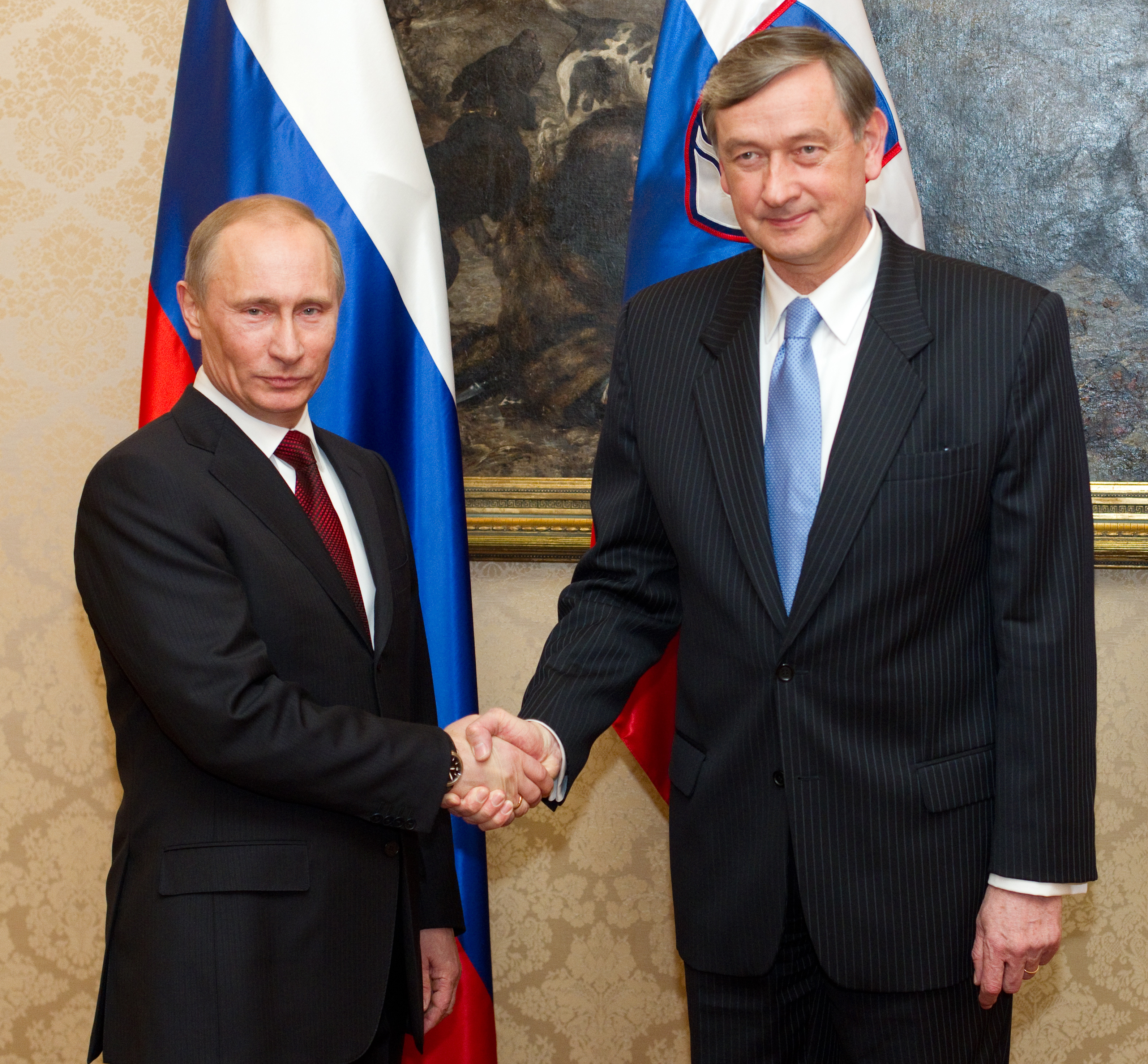 Vladimir Putin in Slovenia in 2011